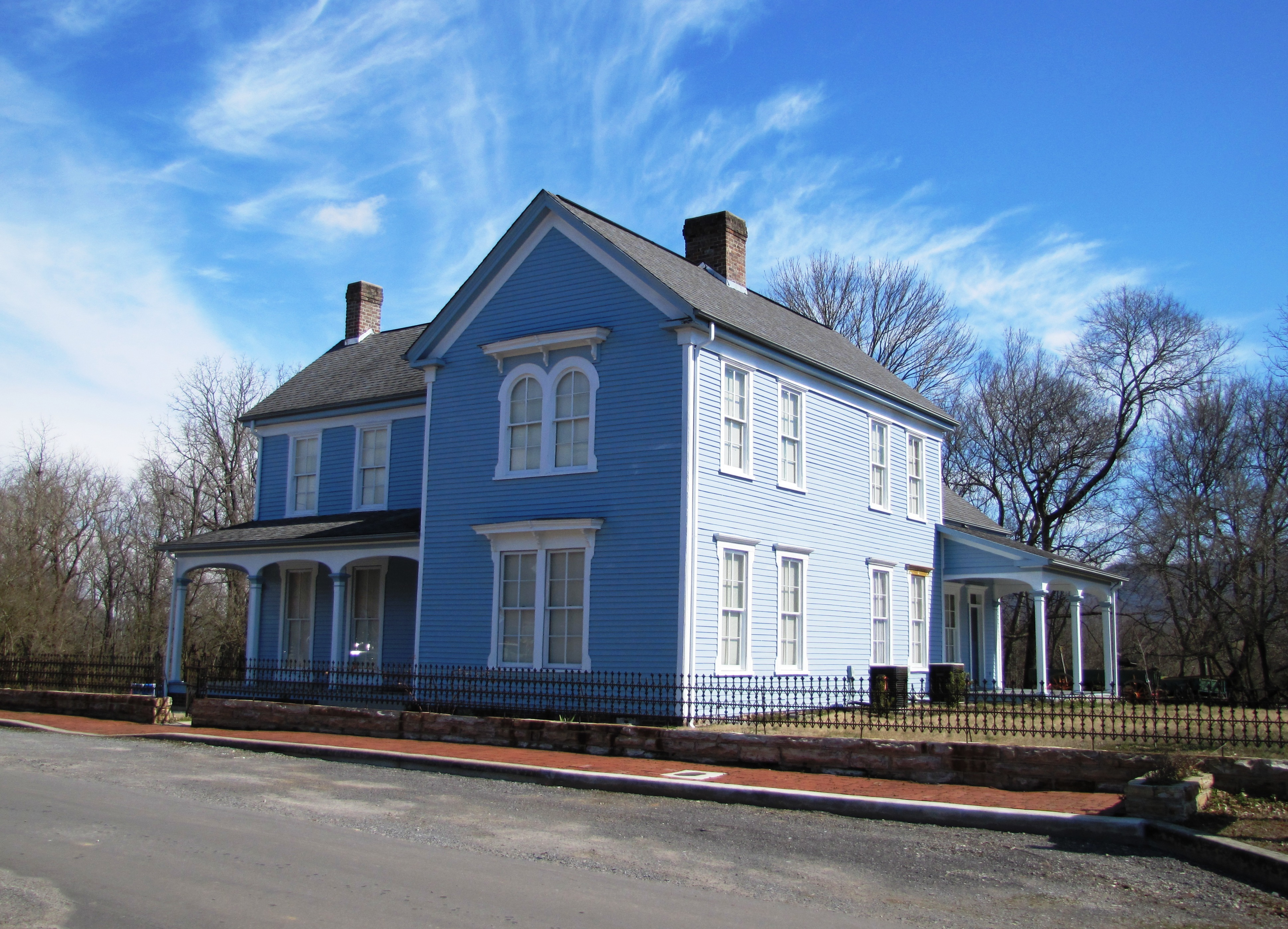 The Dr. James A. Ross House and Medical Office in Pikeville, Tennessee, USA. Built around 1872, the house is now home to the Museum of Bledsoe County History.